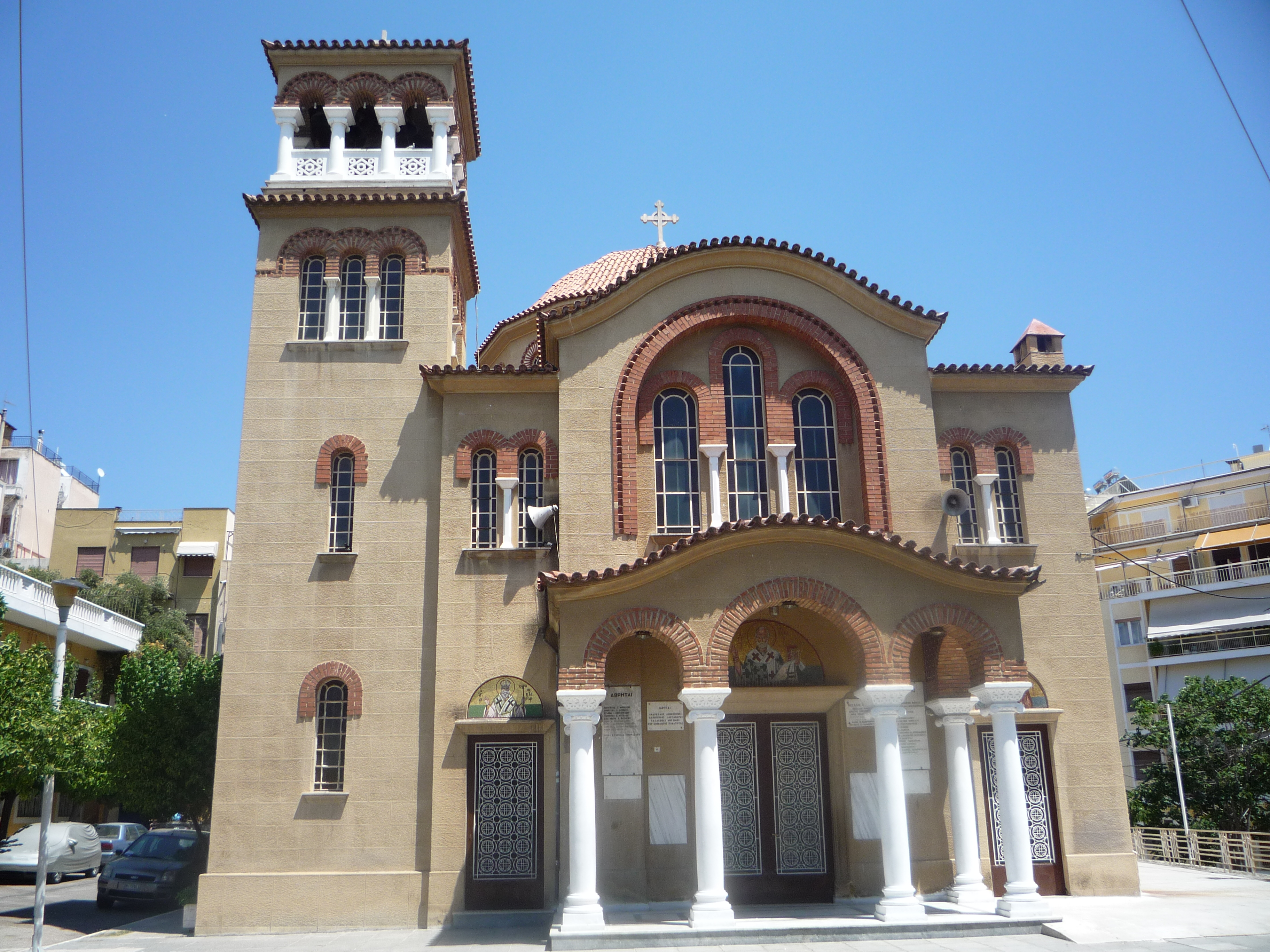 The church Agios Nikolaos in the Filopappou/Koukaki area of Athens, Greece